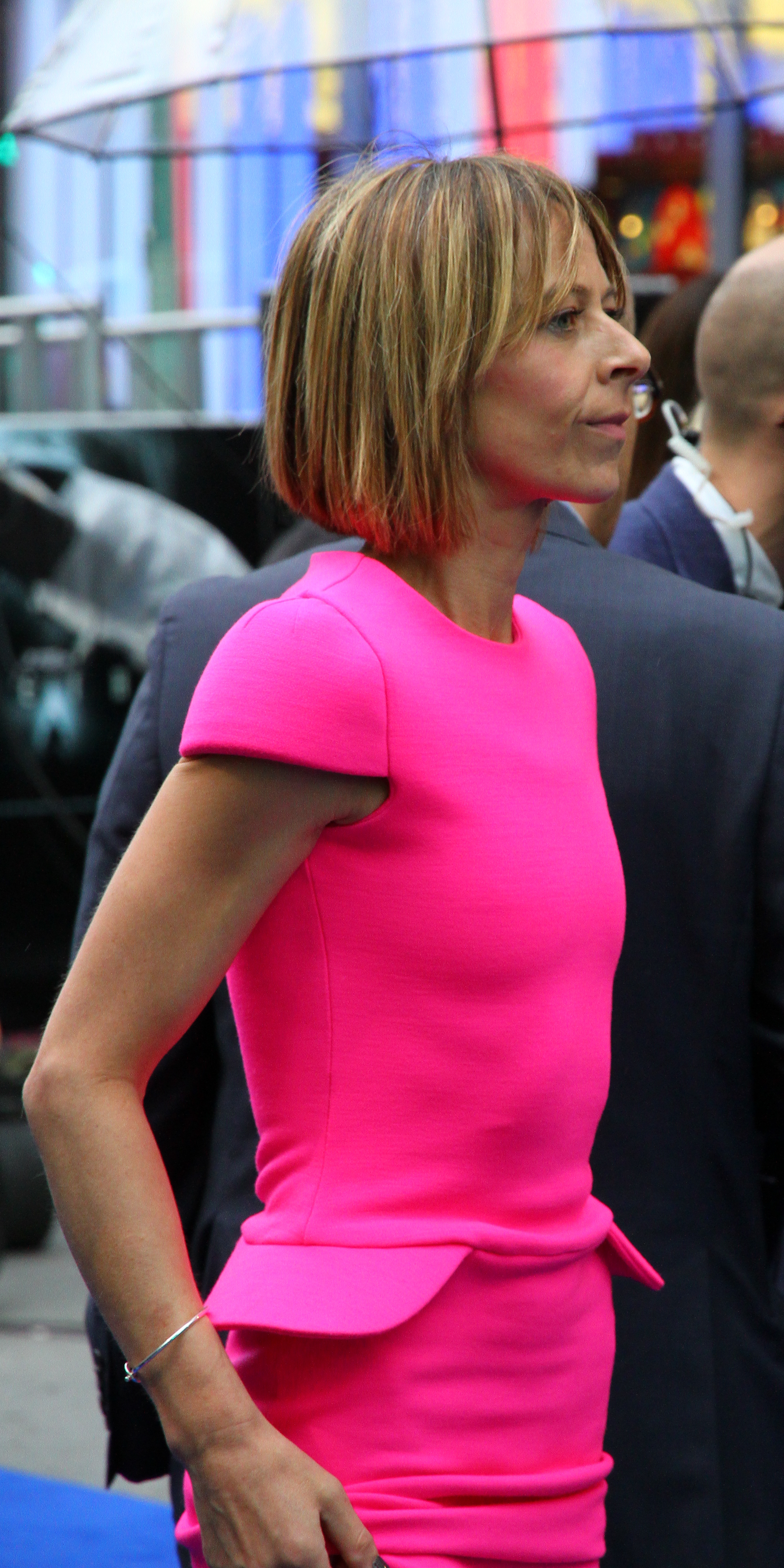 Scottish actress Kate Dickie at the Prometheus world premiere, 2012.